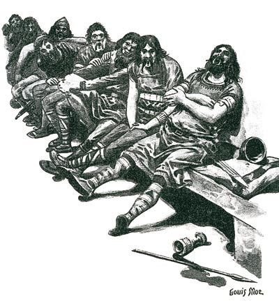 Berserks in the king's hall